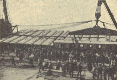 Disembark of a lot of carriages, built by the italian Officine Ferroviarie Meridionali, at the Leixões Seaport. This operation took place on September 1931. The carriages were ordered by the Companhia dos Caminhos de Ferro do Norte de Portugal (Portuguese Northern Railways Company), who explored the narrow gauge railways from Oporto to Póvoa and Famalicão, Matosinhos, and Guimarães. This photograph was originally published in the Gazeta dos Caminhos de Ferro No. 1094, of the 16th July 1933, and scanned by the Hemeroteca Municipal de Lisboa.